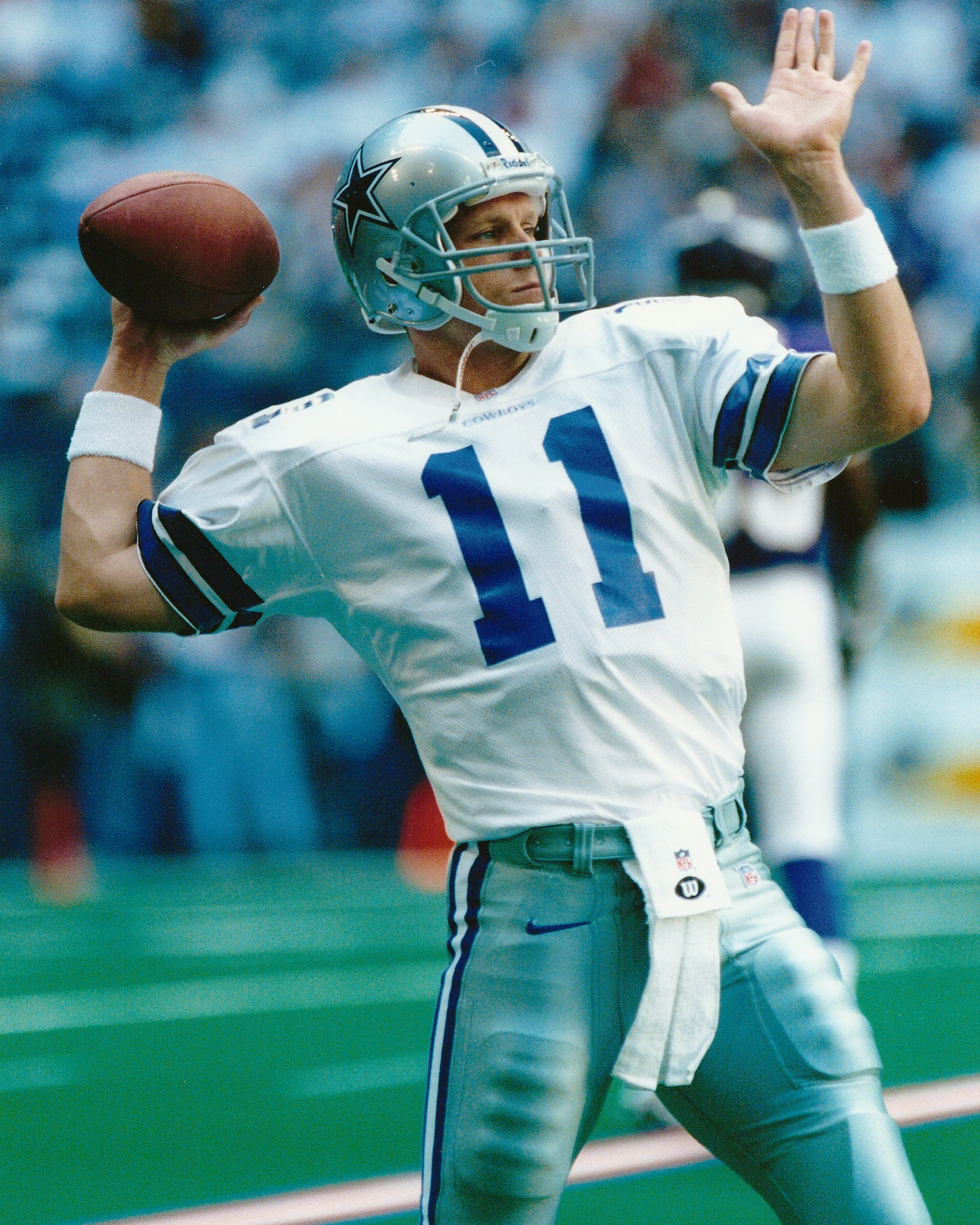 Mike Quinn, American football quarterback (with the Dallas Cowboys at time of photo)